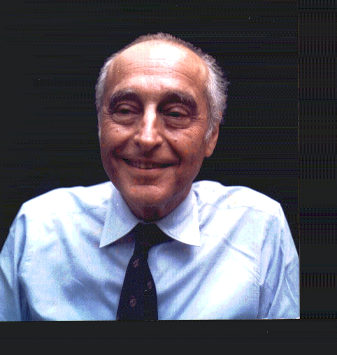 Ithiel de Sola Pool was a revolutionary figure in social sciences, leading groundbreaking research on technology and its effects on society.